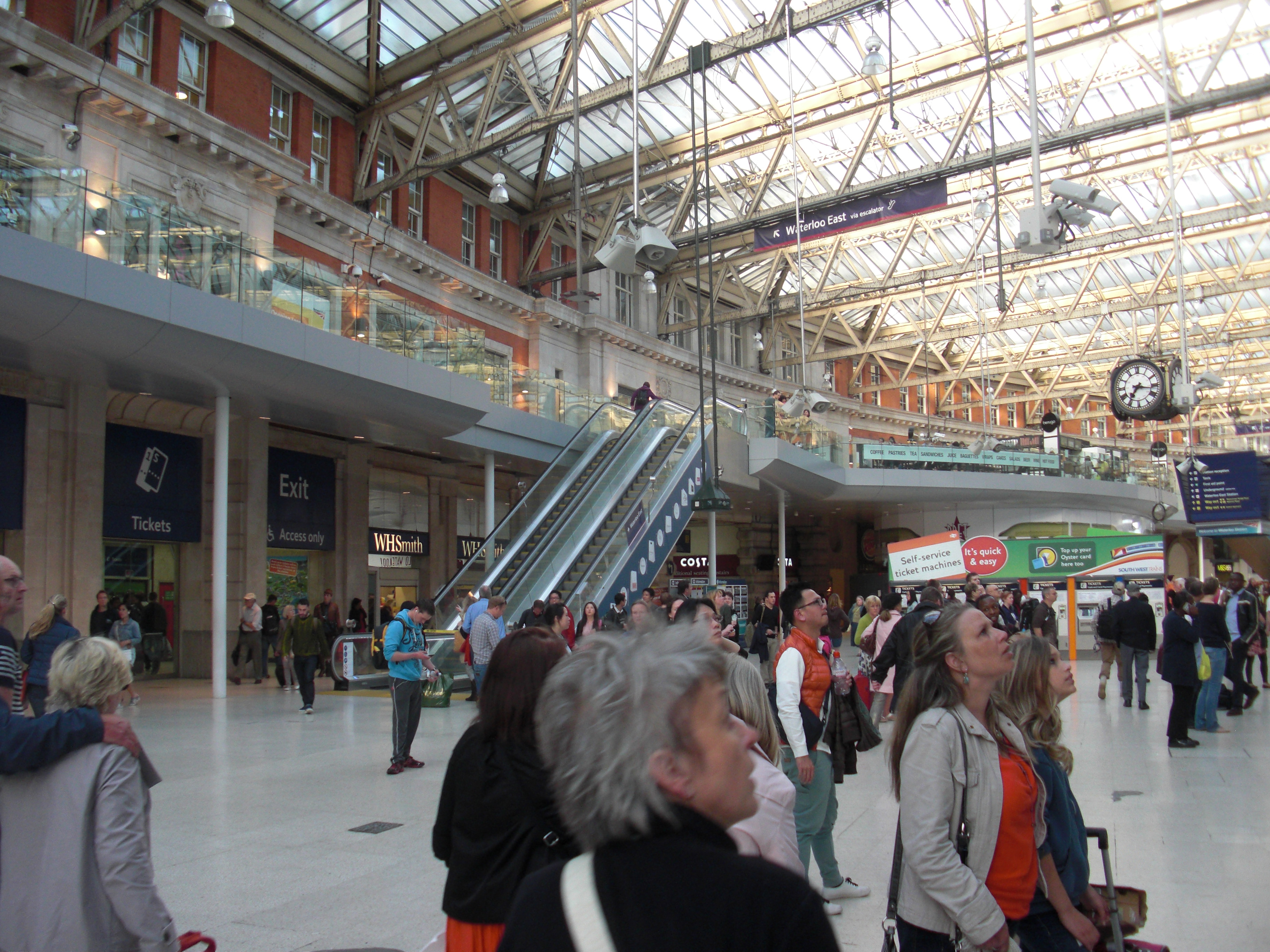 The retail balcony at Waterloo station